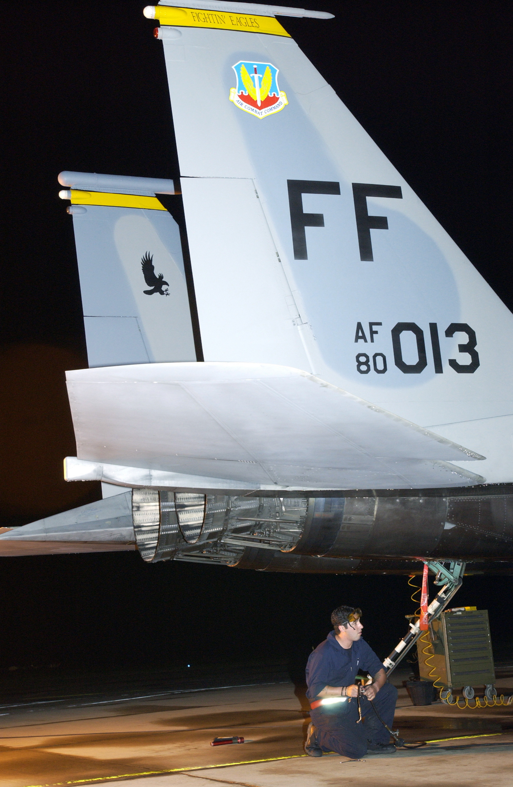 US Air Force (USAF) Senior Airman (SRA) Carlos Gonzalez, Crew Chief, assigned to the 27th Aircraft Maintenance Unit (AMXU), works on the arresting hook of a USAF F-15 Eagle aircraft, during Phase 1 of the Operational Readiness Inspection (ORI), at Langley Air Force Base (AFB), Virginia (VA). The Phase I Operational Readiness Inspection is an evaluation of the 1st Fighter Wing's ability to prepare and deploy personnel, equipment and support assets to a combat environment. Location: LANGLEY AIR FORCE BASE, VIRGINIA (VA) UNITED STATES OF AMERICA (USA)